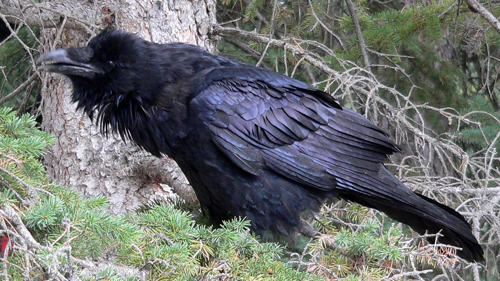 A Raven (Corvus Corax) perched on a tree branch.Photo taken with a Panasonic Lumix DMC-FZ20 near Athabasca Falls in Jasper National Park, Canada.